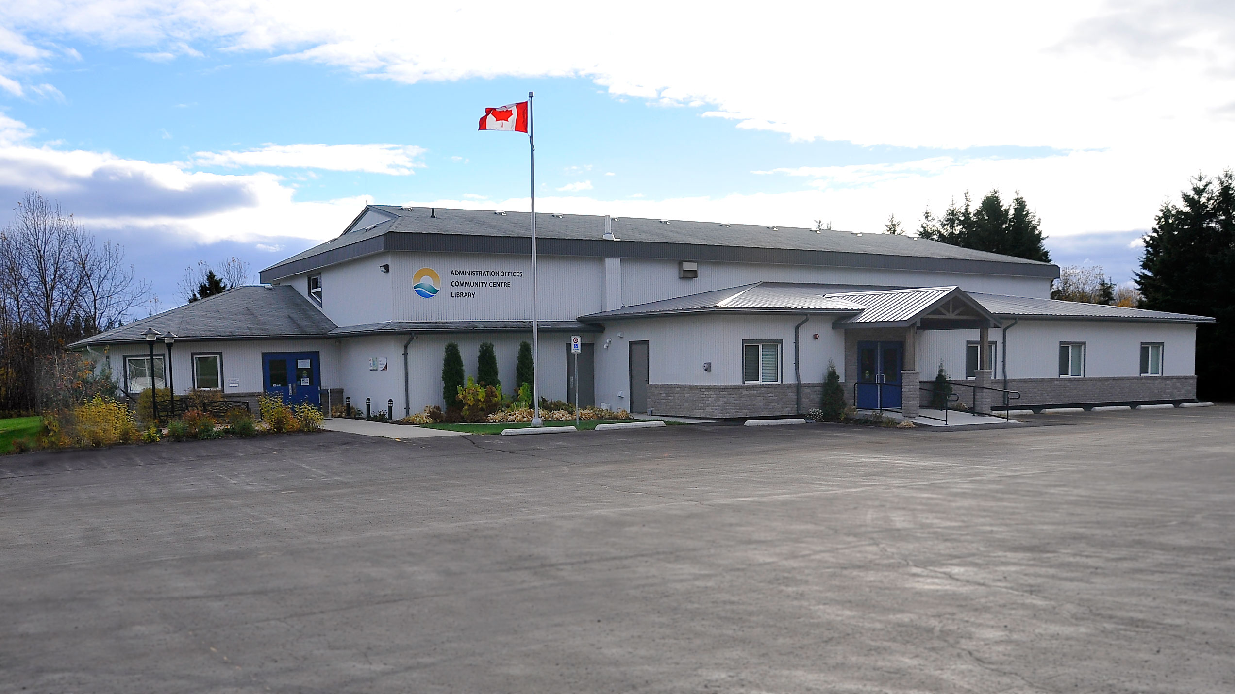 Conmee Township Municipal Office & Community Centre